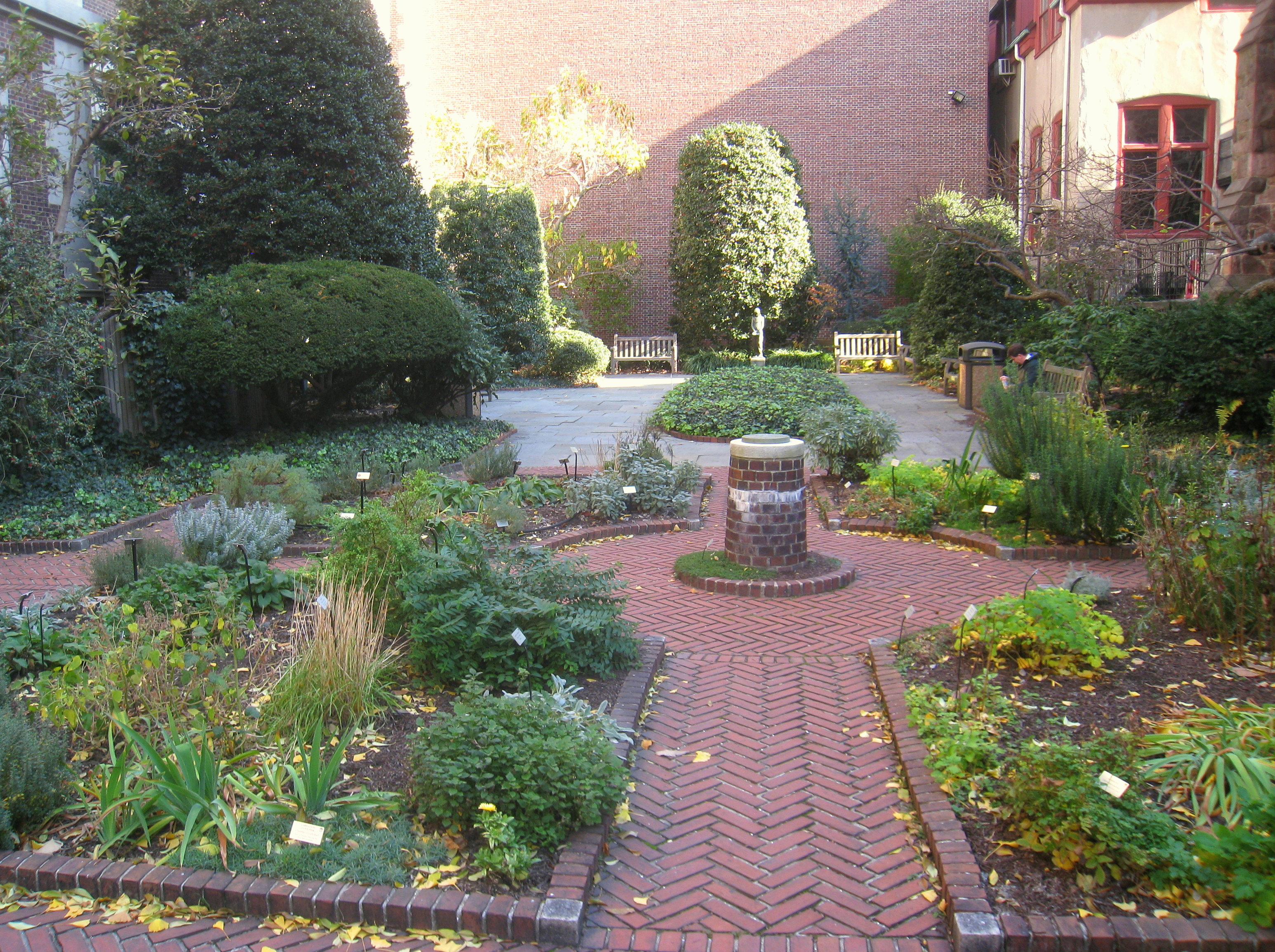 Benjamin Rush Medicinal Plant Garden, at the College of Physicians of Philadelphia, 19 S. 22nd St. Philadelphia , Pennsylvania, USA.